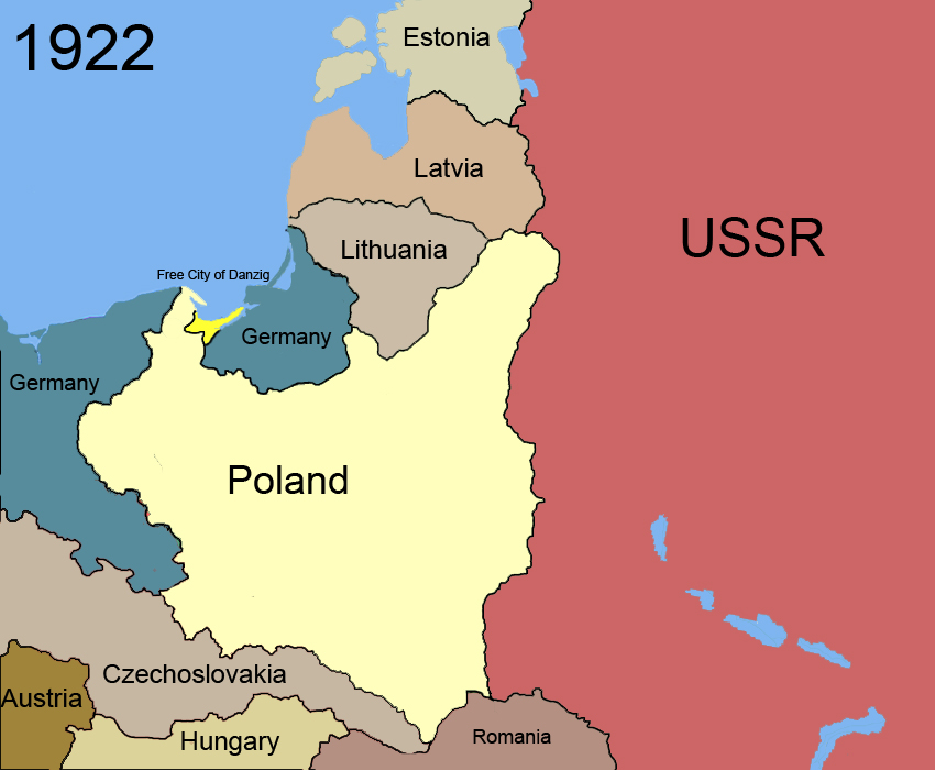 On December 28, 1922 a conference of plenipotentiary delegations from the RSFSR, the Transcaucasian SFSR, the Ukrainian SSR and the Byelorussian SSR approved the Treaty of Creation of the USSR and the Declaration of the Creation of the USSR, forming the Union of Soviet Socialist Republics.[3] These two documents were confirmed by the 1st Congress of Soviets of the USSR and signed by heads of delegations - Mikhail Kalinin, Mikha Tskhakaya, Mikhail Frunze and Grigory Petrovsky, Aleksandr Chervyakov respectively on December 30, 1922. On February 1, 1924 the USSR was recognized by the British Empire.